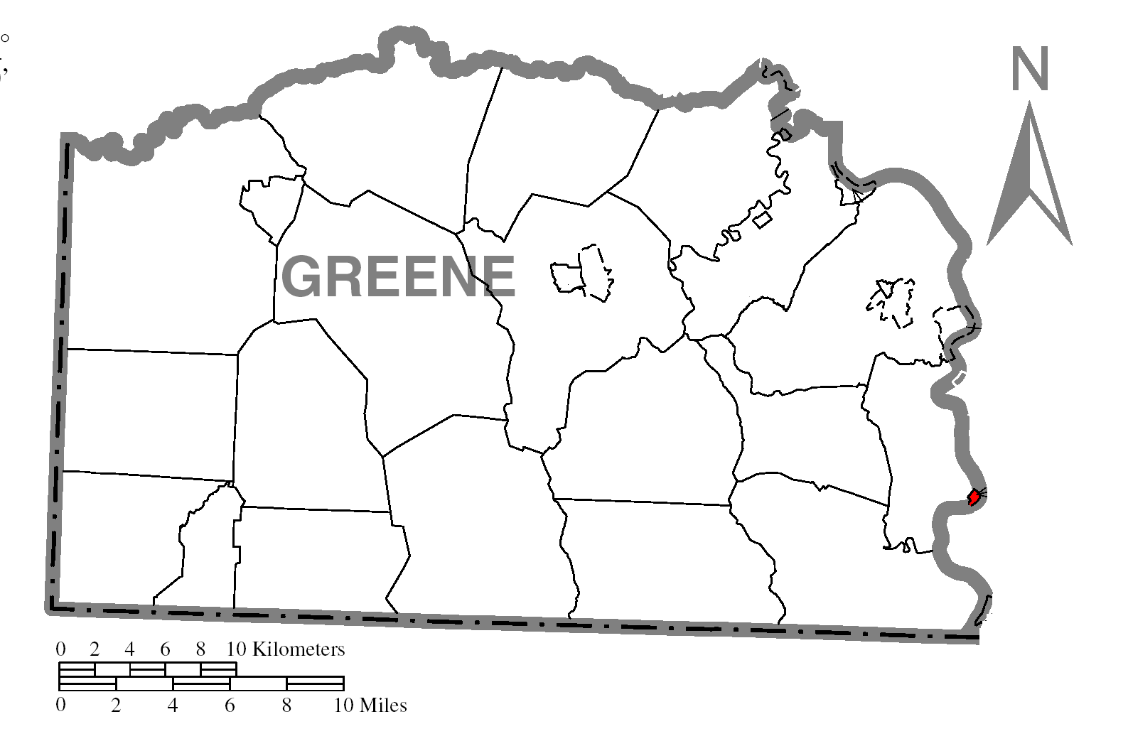 Map of Greene County higlighting Greensboro.